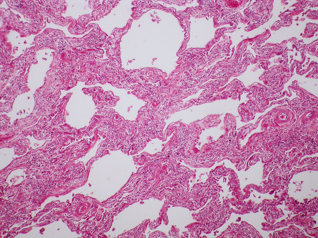 Interstitial pulmonary fibrosis in Scleroderma. Mild interstitial inflammation is also present.